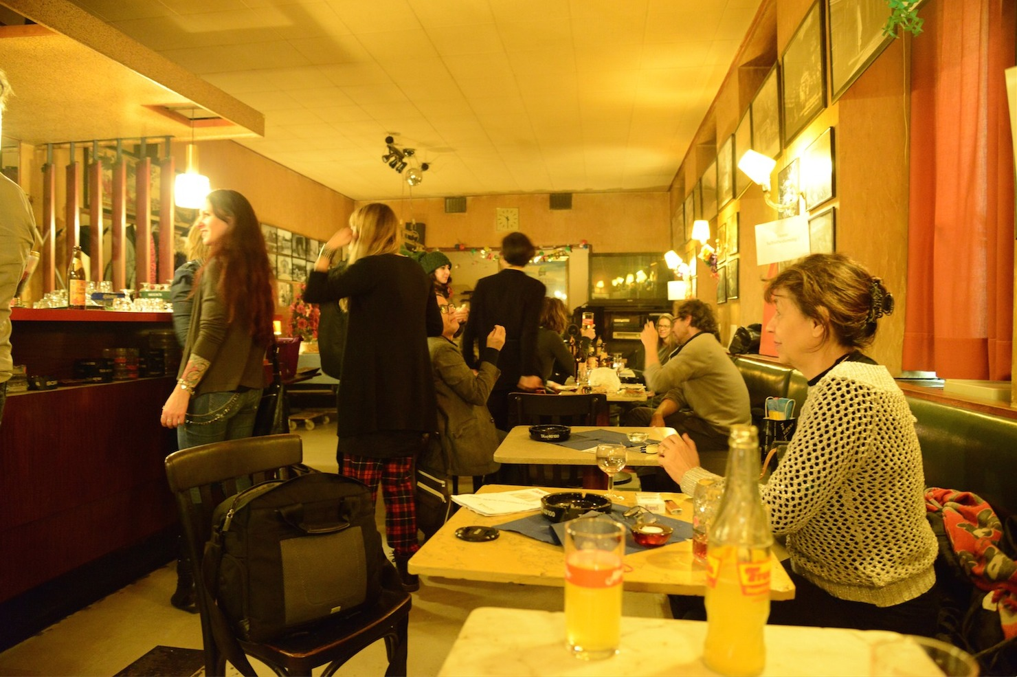 Kaffee Urania, 2015